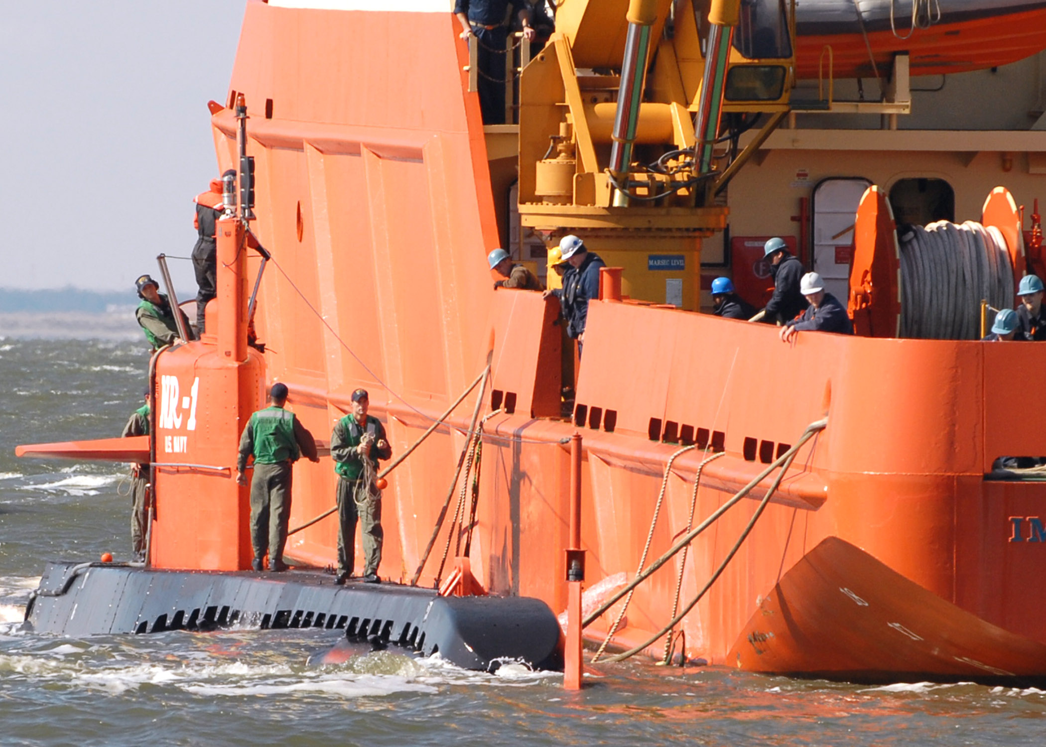 061024-N-8655E-106 Norfolk, Va. - Naval research submarine, NR-1, dock alongside the U.S. submarine support ship MV Carolyn Chouest. NR-1 is the Navy's smallest and only research submarine, performing underwater search and recovery, oceanographic research missions and installation and maintenance of underwater equipment to a depth of almost half a mile.